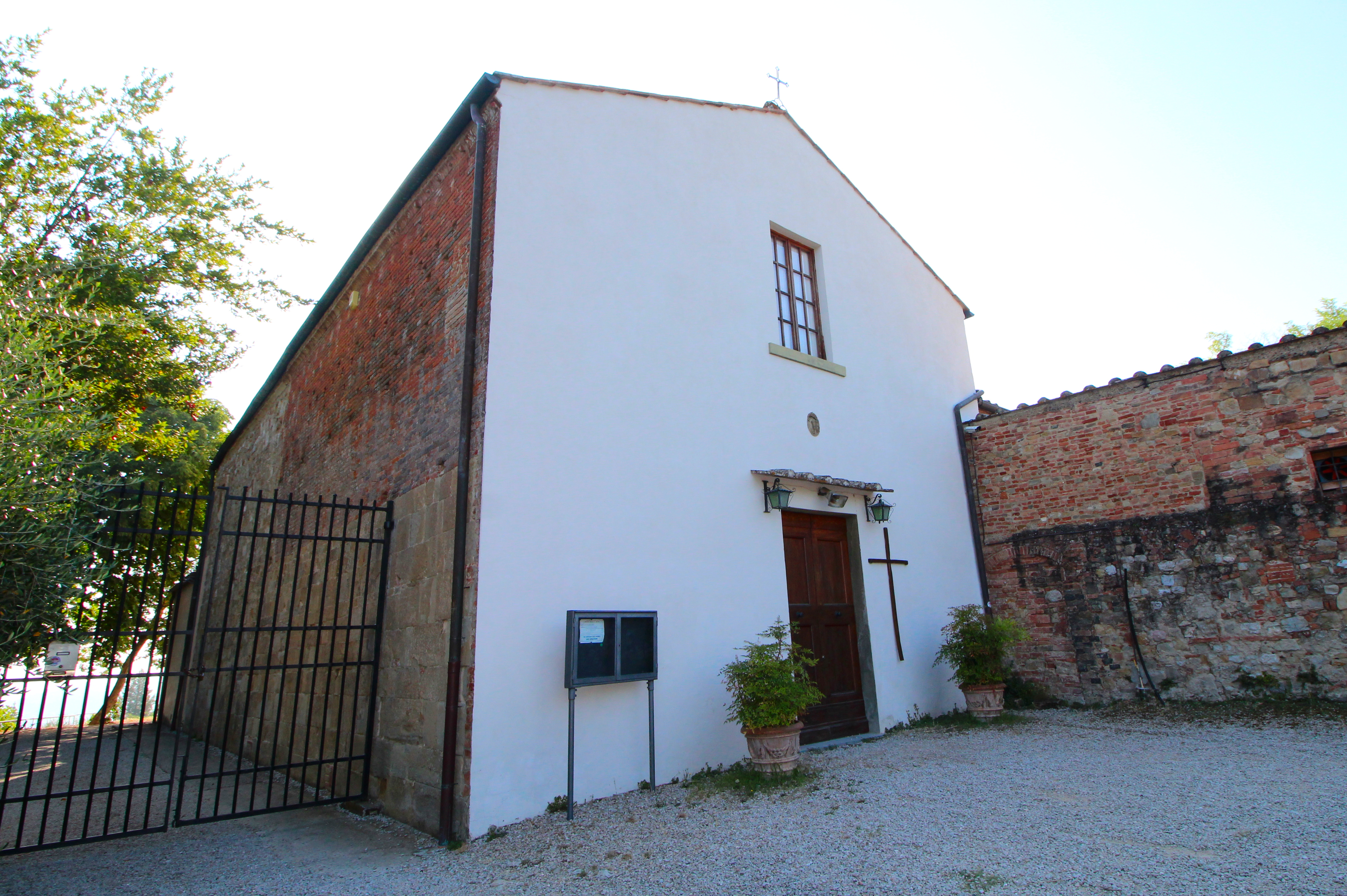 San Pietro a Cerreto (also Badia di San Pietro a Cerreto, Abbazia di San Pietro a Cerreto), Badia a Cerreto, village in the territory of Gambassi Terme, Città metropolitana di Firenze, Tuscany, Italy